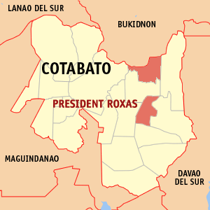 Map of the Cotabato showing the location of President Roxas